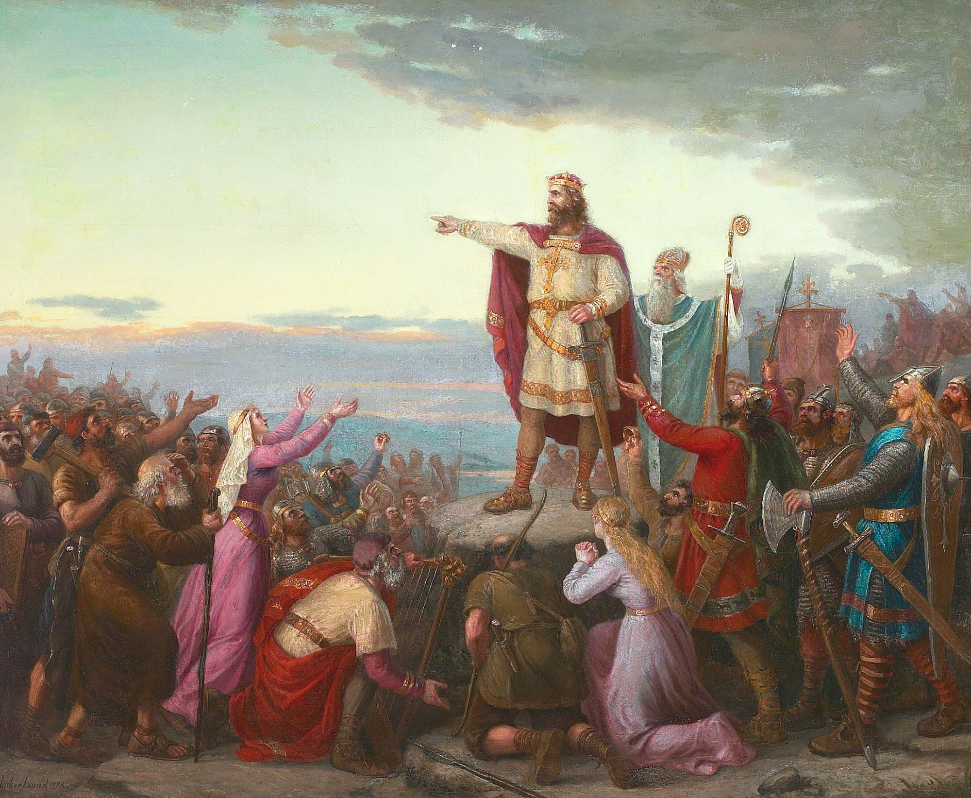 The story goes that Eric's reason for the pilgrimage was some killings of guests. He never made it to Jerusalem, but died on Cyprus on July 10, 1103.